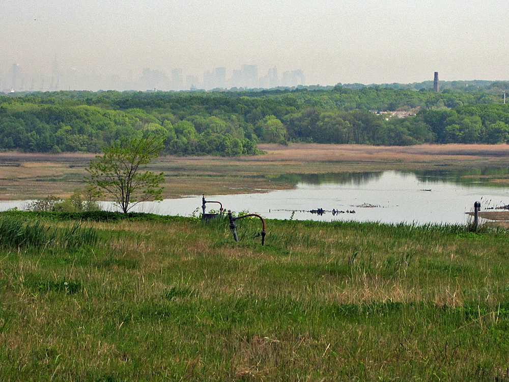 Downtown Manhattan view over Freshkills Park